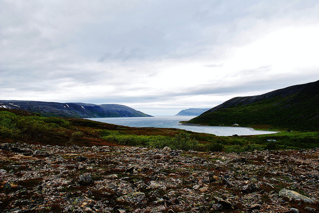 Oksevag, Norway, Finnmark North-Norway